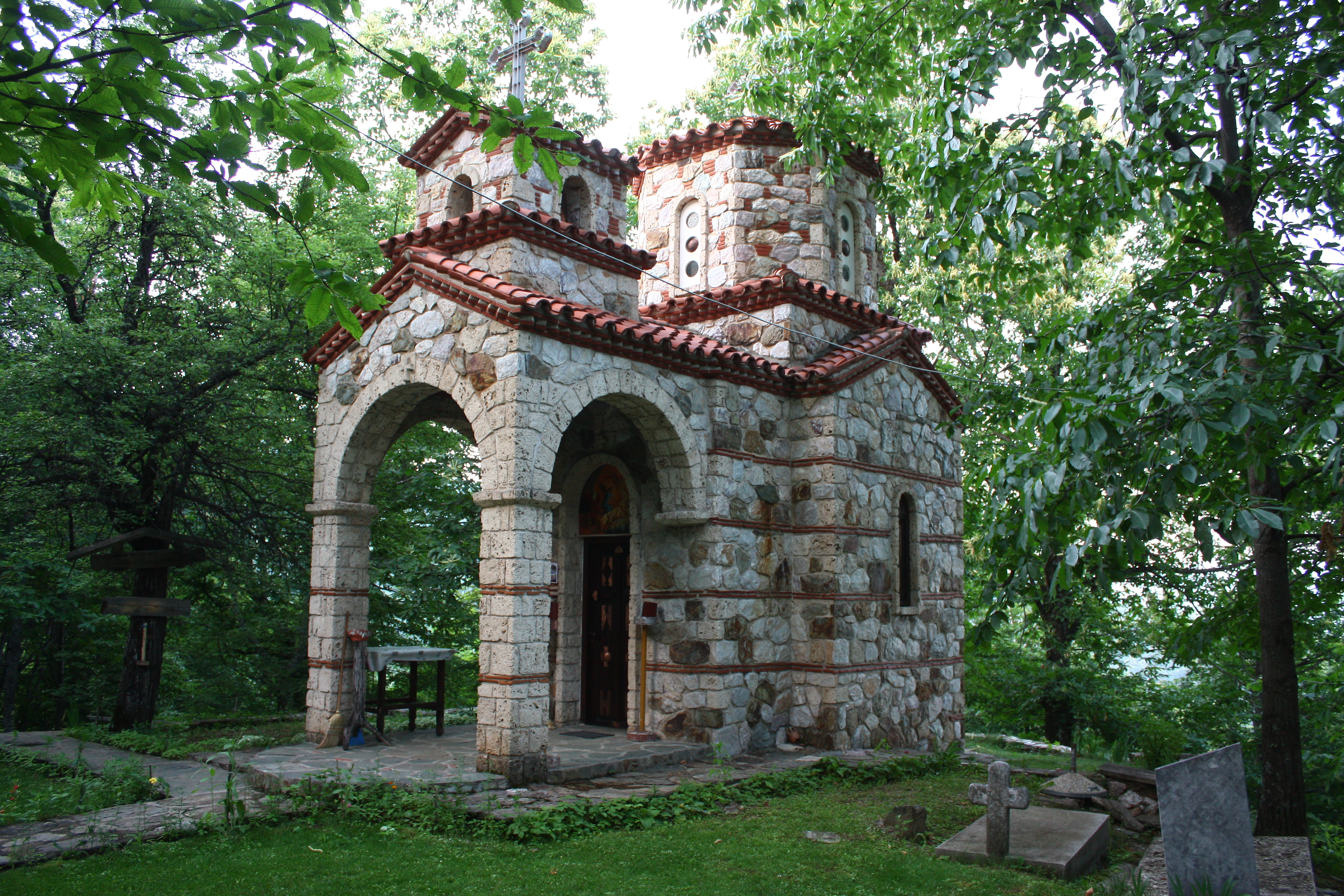 St. Elijah Church in Dolno Jelovce, near Gostivar, Macedonia